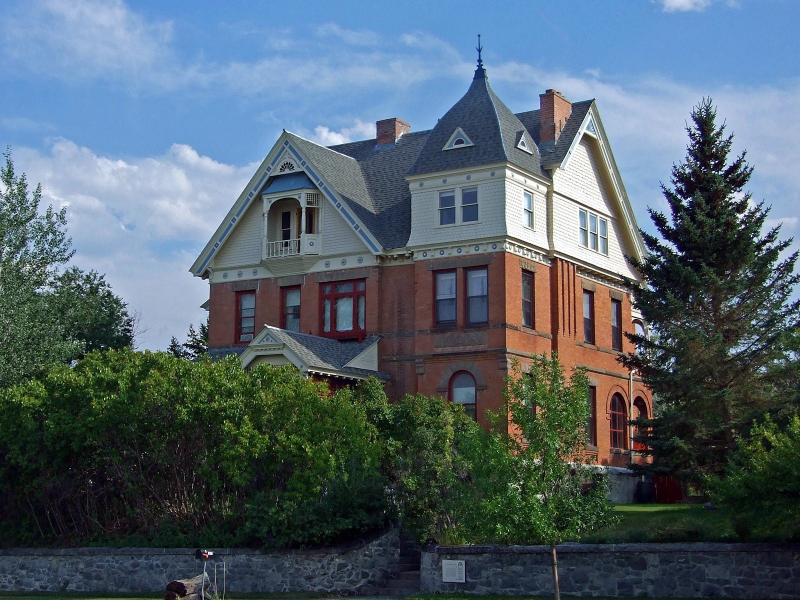 T.H. Kleinschmidt HousePrussian-born entrepreneur Theodore H. Kleinschmidt was 25 years old when he arrived in the gold camp of Virginia City, Montana, in 1864 with a mule team and a stock of merchandise. Only two years later, he and Samuel Hauser opened the First National Bank of Helena in a local grocery store. Kleinschmidt became one of the town’s leading financiers, with interests in public utility companies, banks, merchandising, mining, and livestock ranching around Montana Territory. He served three terms as mayor of Helena, was president of the Helena Board of Trade, director of the state fair association, and treasurer of the Society of Montana Pioneers. He built this home for his wife, Mary Blattner Kleinschmidt, and their six children in 1892. The location then was notably east of town, at a time when stylish mansions were clustered on Helena’s west side. When Mrs. Kleinschmidt died in 1904, her funeral was held here, with mourners transported by special trolley car. The home was designed by Montana pioneer W. E. Norris, born on the plains en route to Montana. In it, Norris proves his advertising claim, “Fine Residences a Specialty,” combining dignified lines with Victorian gingerbread touches.